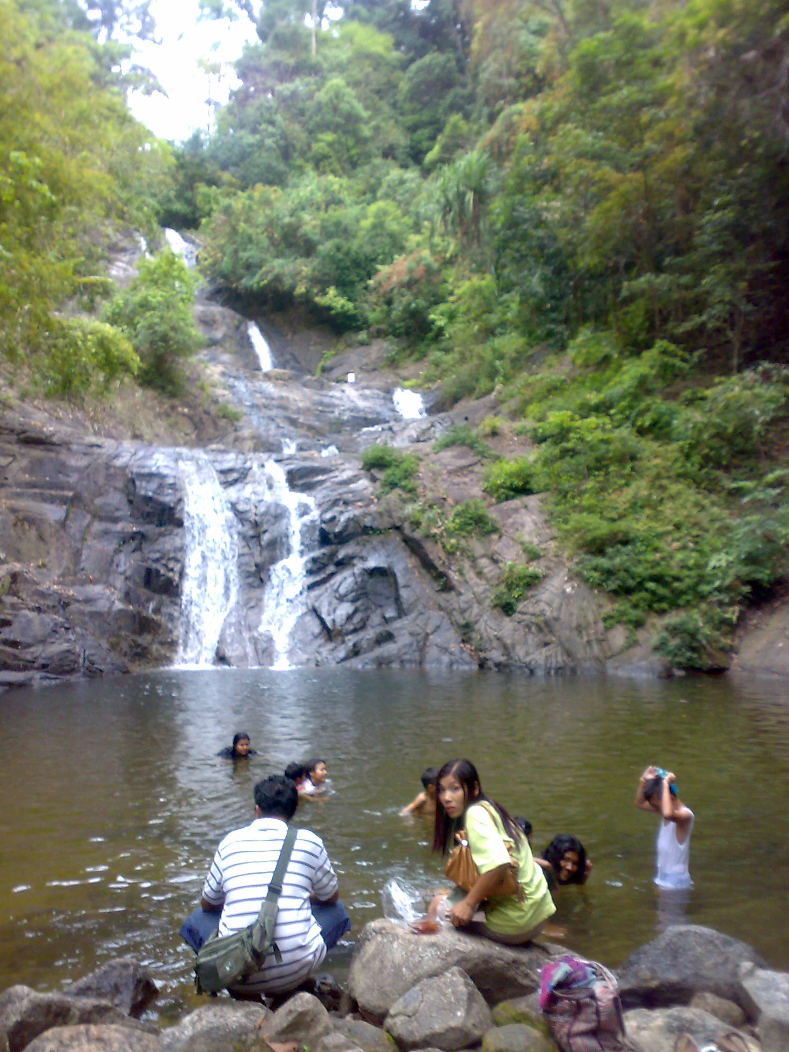 Khao Lam Pi Waterfall, Khao Lampi - Hat Thai Mueang National Park, Phang Nga Province, southern Thailand